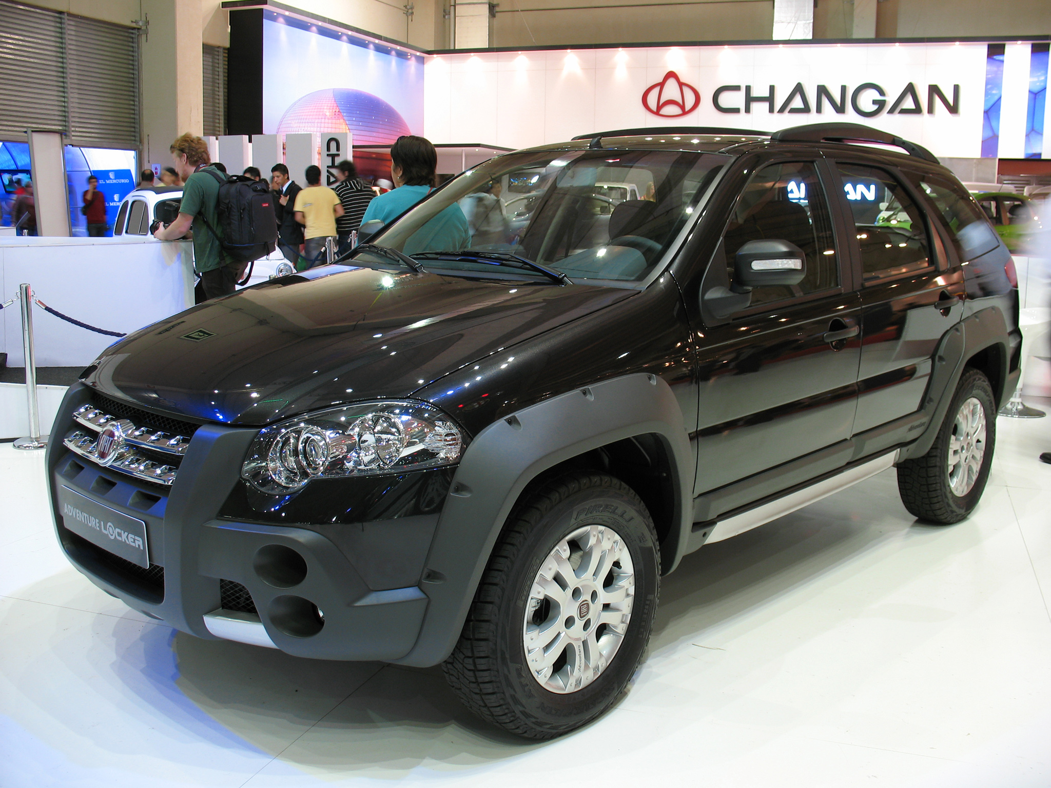 Fiat Palio Adventure Locker 2008